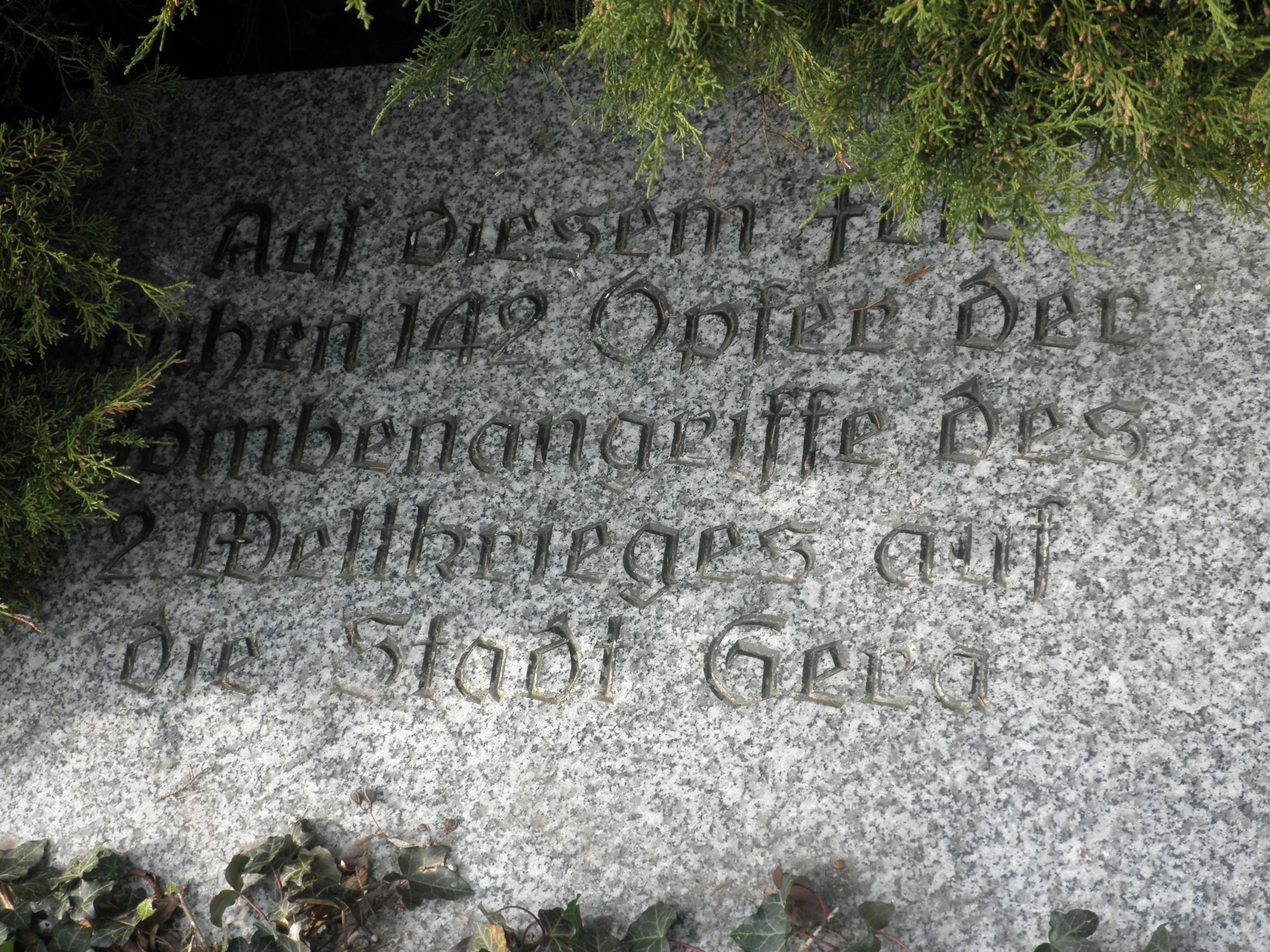 Memorial for bombing victims in Gera in Thuringia